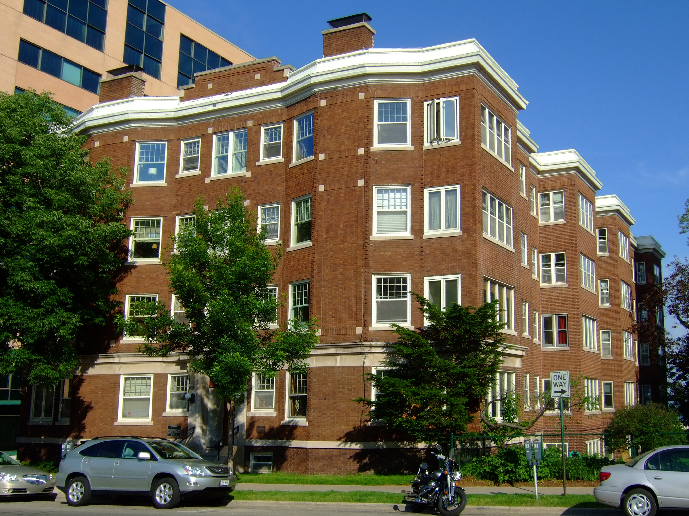 Bellevue Apartments (1913-14) in Madison, Wisconsin. Constructed by local builder Charles E. Marks, the Bellevue was the largest and most expensive apartment building erected during Madison's pre-World War I apartment house boom. Advertised as a place of "ease and comfort," the Bellevue featured such Victorian luxuries as built-in leaded glass bookcases and fireplaces. The building pioneered modern conveniences, including electric elevators, food and laundry service, and centralized vacuum, trash disposal, and refrigerator systems. Added to National Register of Historic Places in 1987.